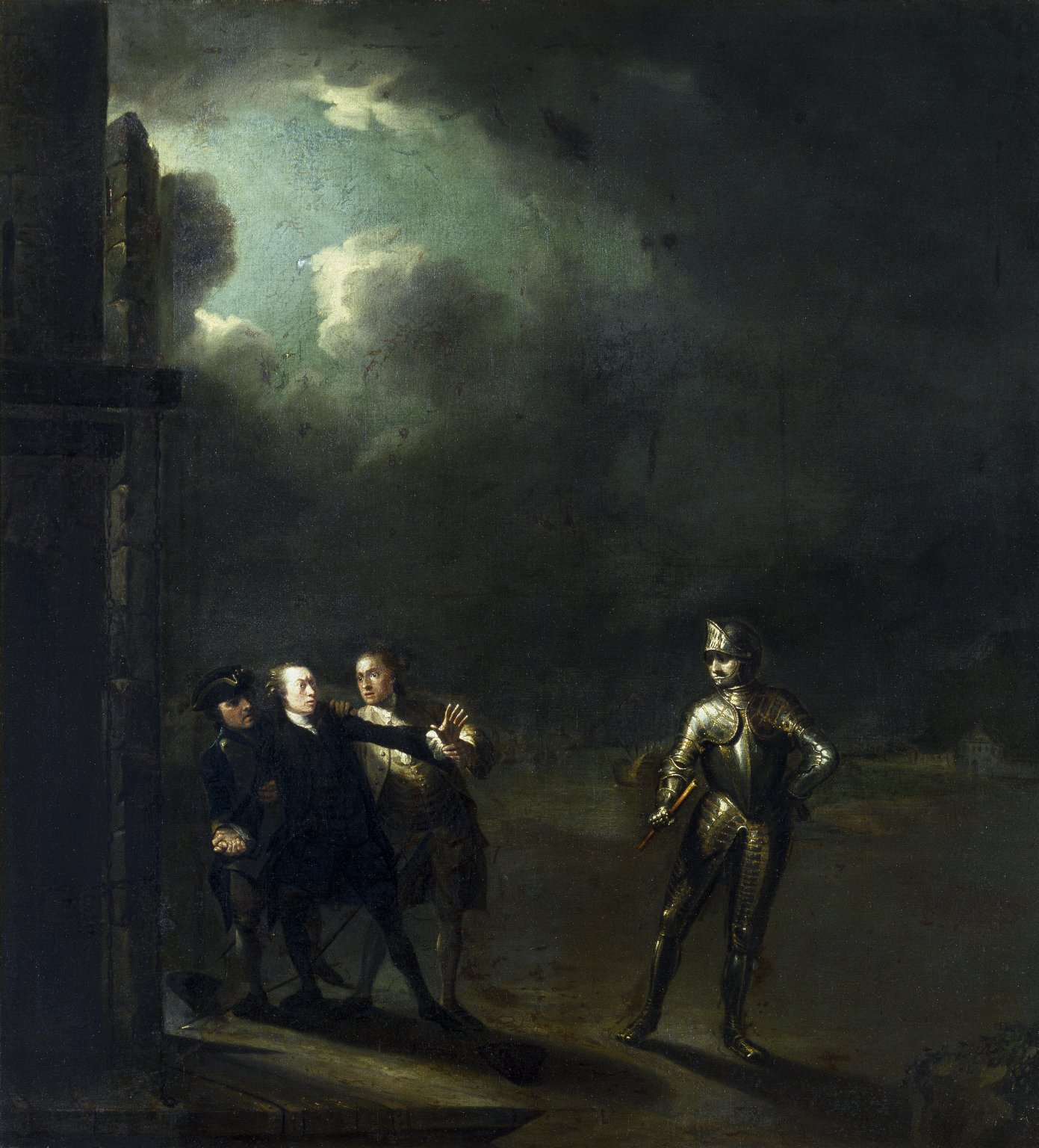 From Act I, Scene 4 of William Shakespeare's Hamlet